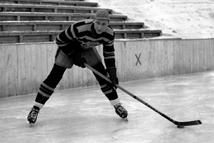 Photograph of the Finnish ice hockey player Aarne Honkavaara (1924–2016).